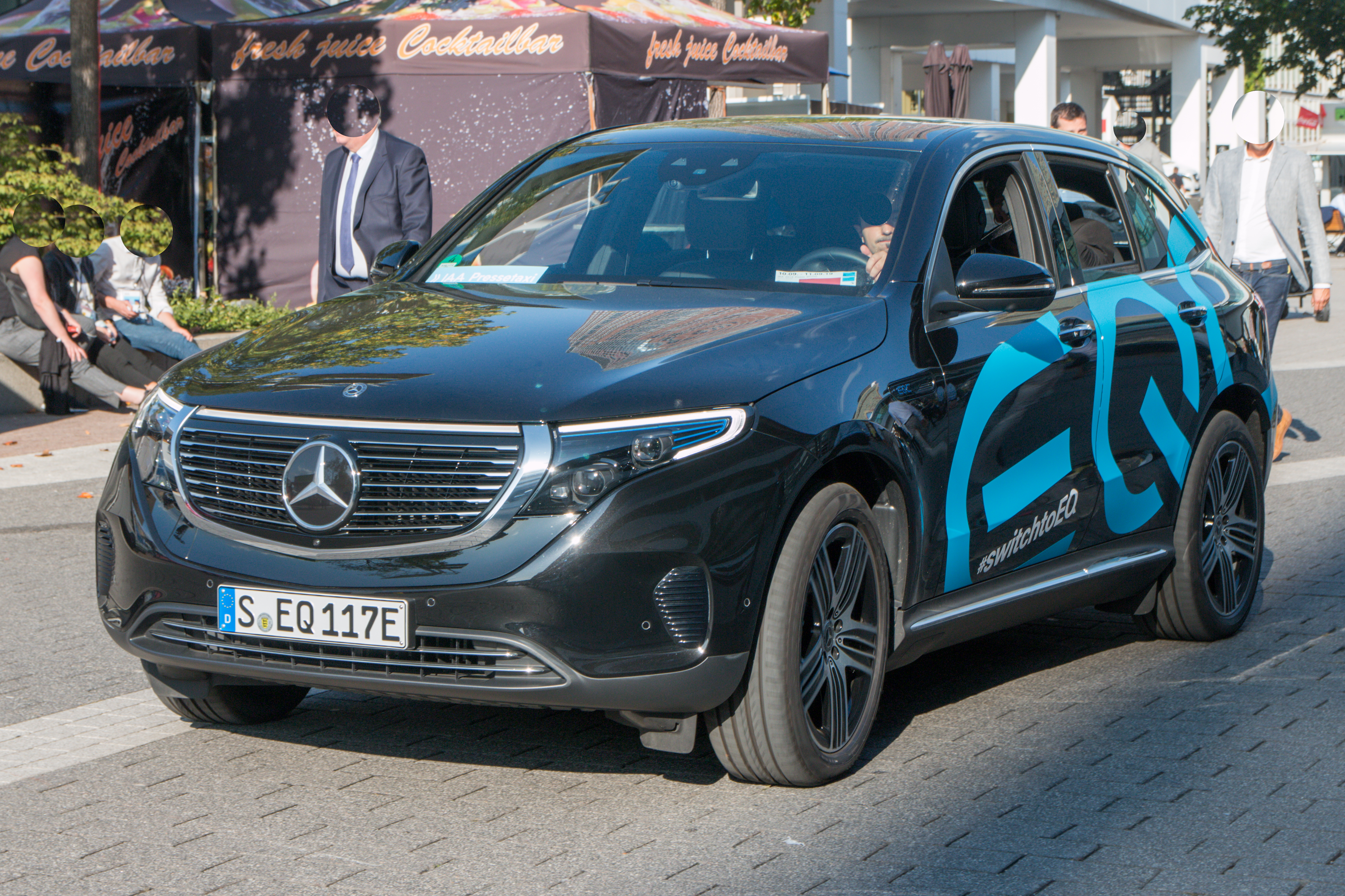 Mercedes-Benz N 293